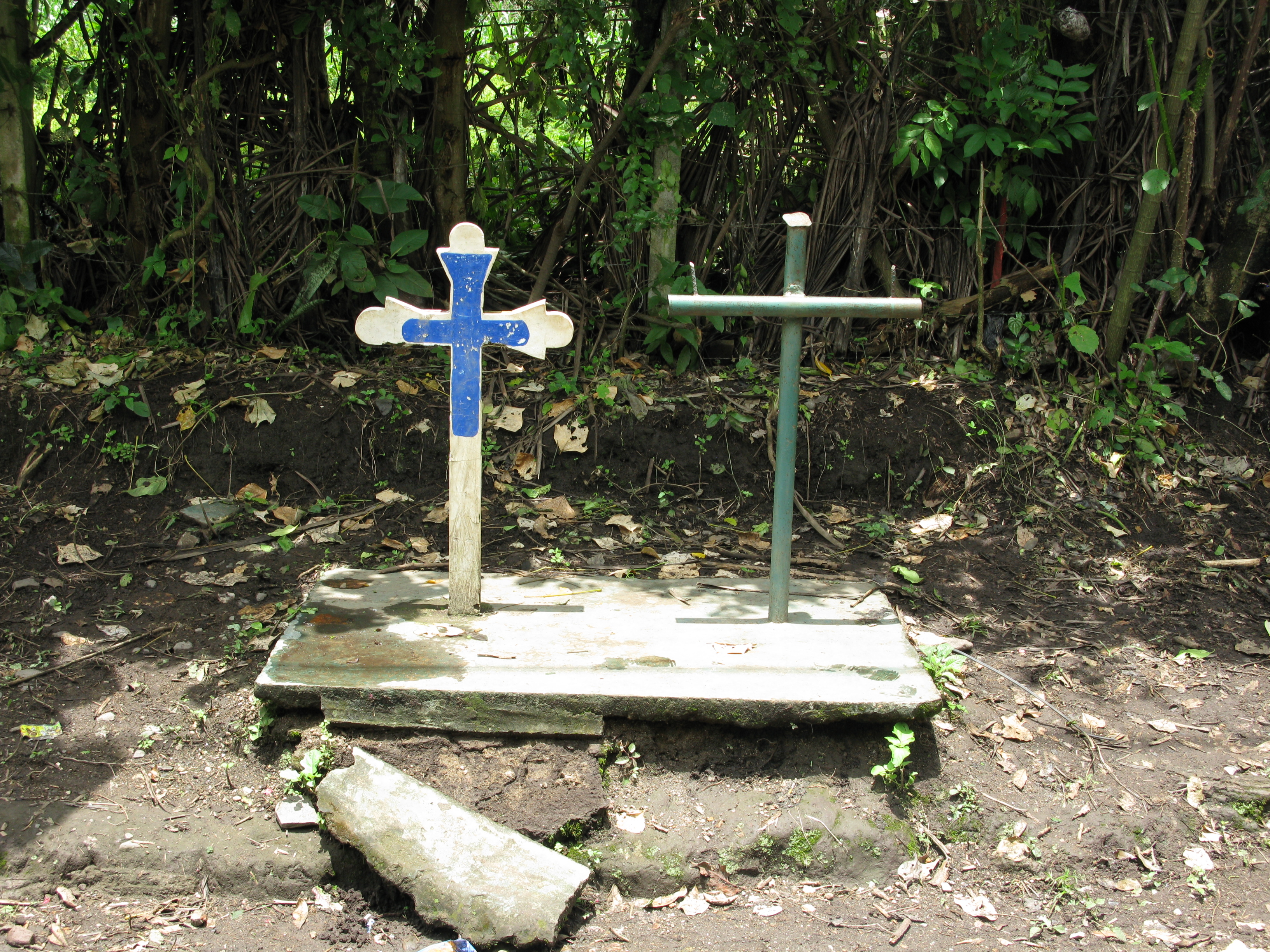 Memorial to Pastors Jesus and Francisco Carrillo across from the Montes de Penzberg Lutheran Church in Dos De Mayo, near Jayaque, La Libertad, El Salvadador.